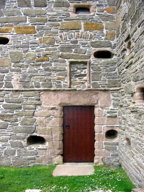 Notland Castle, Pierowall Westray, Orkney